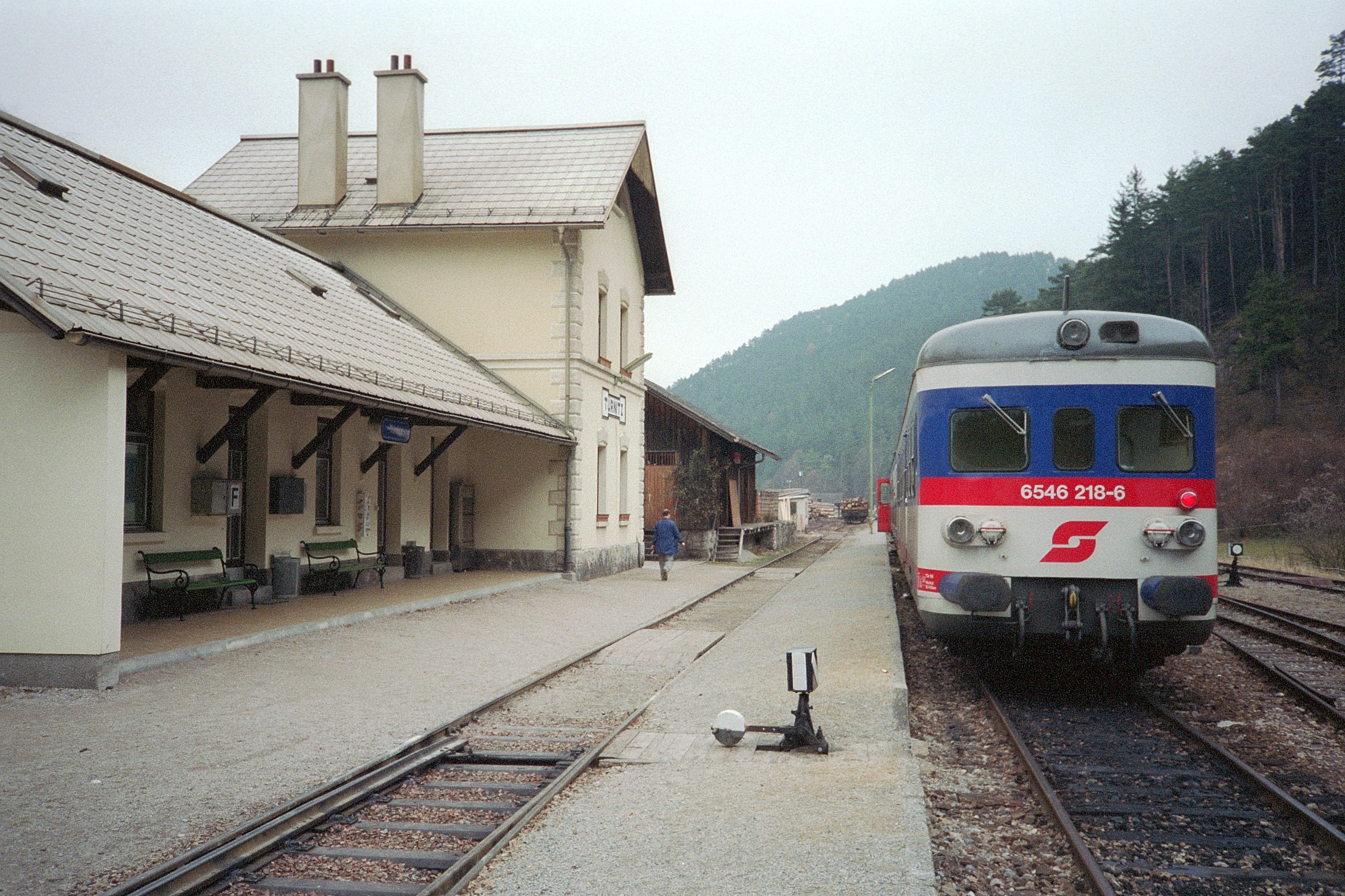 Türnitz station with DMU steering unit 6546 218-6.